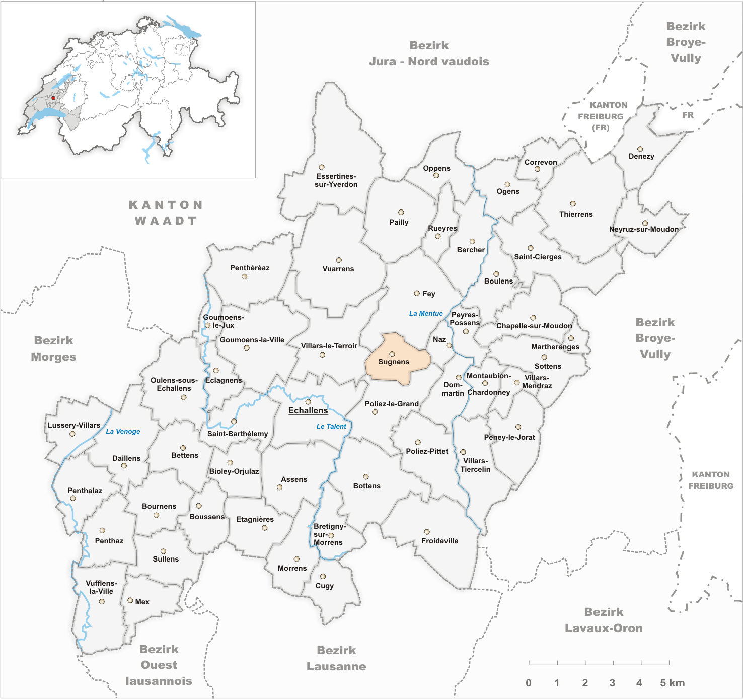 Municipality Sugnens